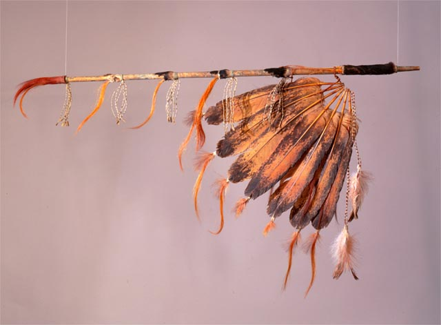 A Native American peace pipe. From an exhibition guide at the Library of Congress.[1][2]. The item is owned by the Peabody Museum of Archaeology and Ethnology, which identifies it as being from the upper Missouri River.